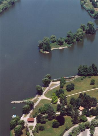 The Boating Lake and its surroundings, the favourite recreation center of the inhabitants of the town, Nagykanizsa, Hungary